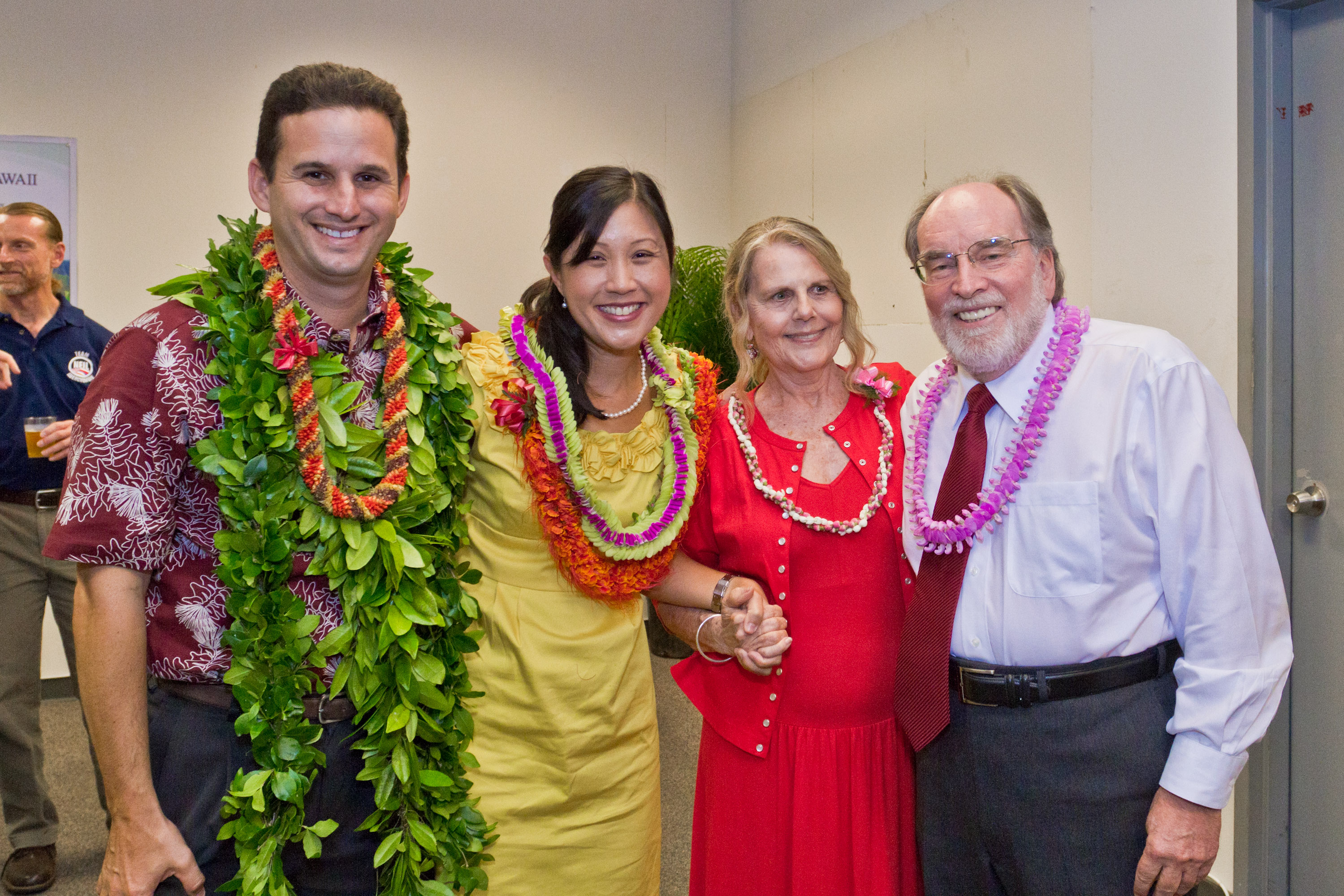 Left to right - Lt. Governor-elect Brian Schatz; his wife, Linda Kwok Kai Yun Schatz; incoming Hawaii First Lady Nancie Caraway; and Governor-elect of Hawaii Neil Abercrombie on November 2, 2010